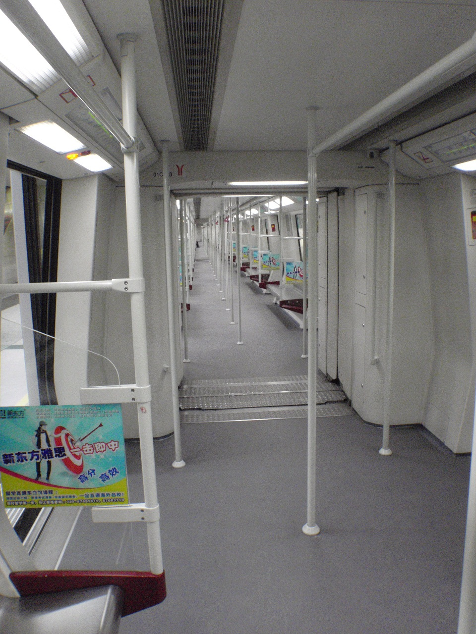 interior of EMU for Guangzhou Metro Line No.1, China.